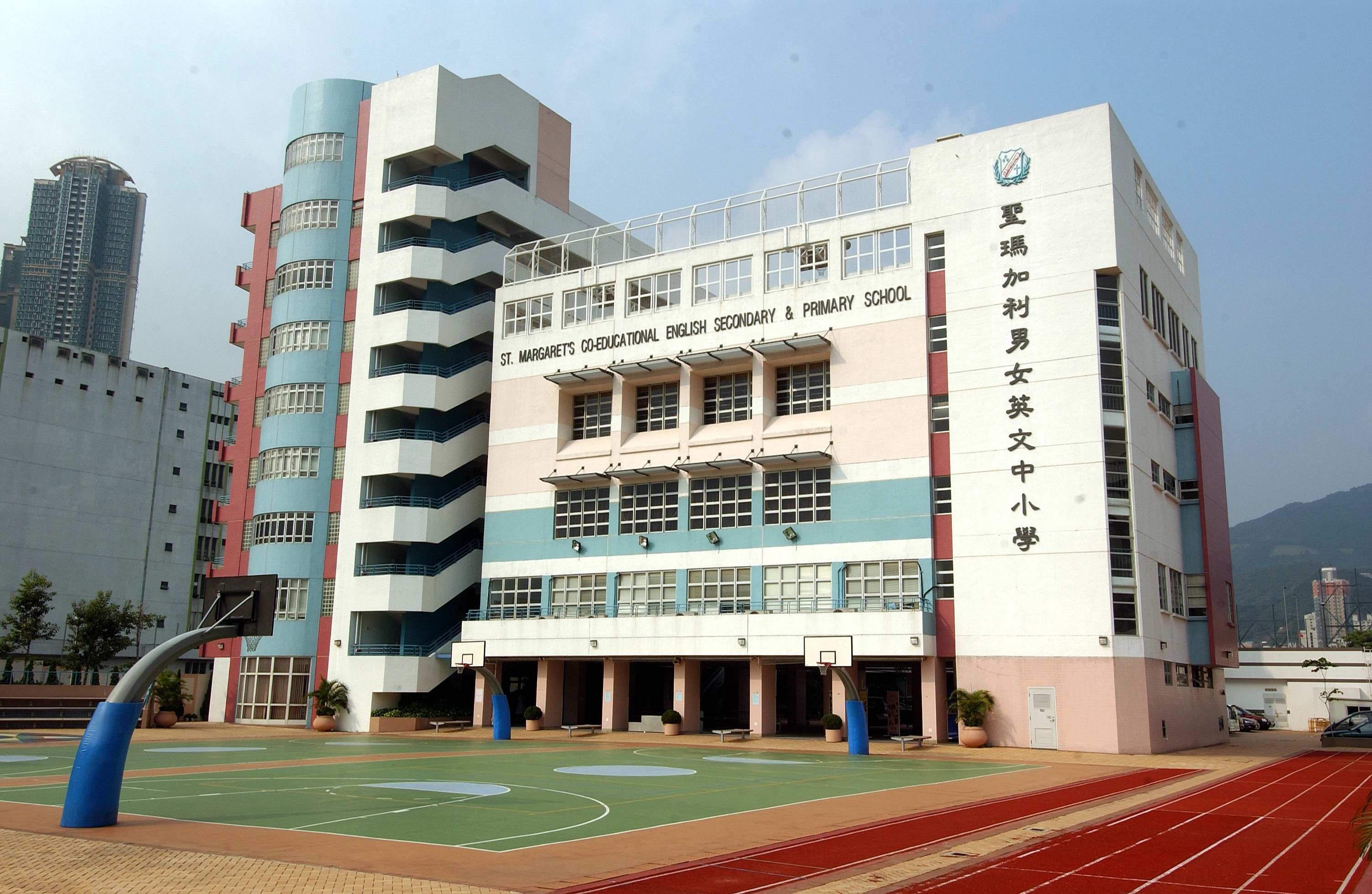 This is the campus of St. Margaret's Co-educational.